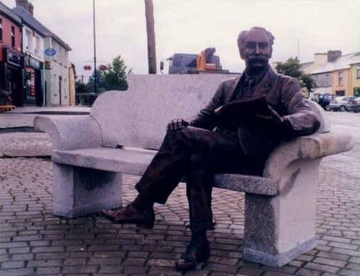 During the Cavan Co. Co. Renovation of Ballyjamesduff's main square; a bronze figure of Percy French, seated on an Edwardian style granite bench holding sheet music with the immortal words and music of "Come back Paddy Reilly to Ballyjamesduff " Sculpted by Alan Ryan Hall, Valentia Island, Kerry.